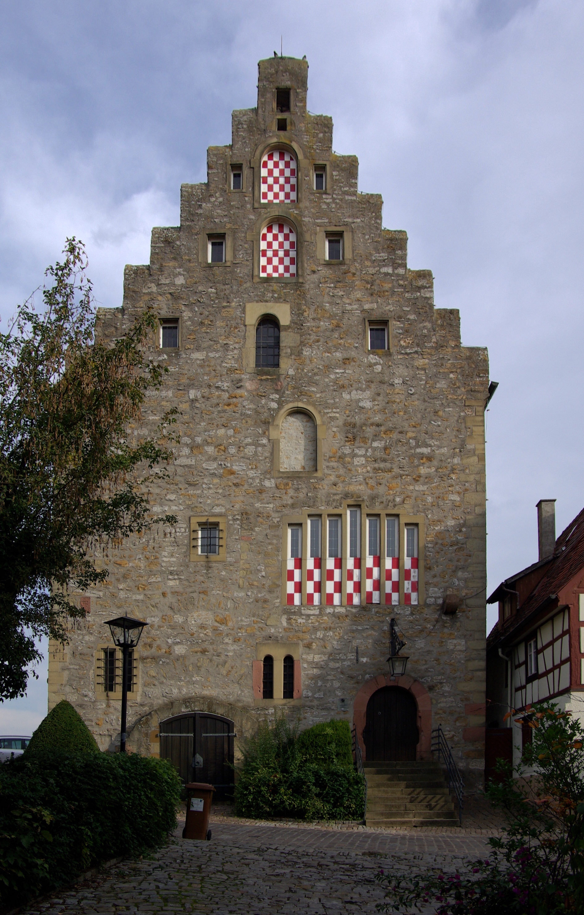 Germany, Bad Wimpfen, "Steinhaus" (Stonehouse), building from the 13. century, crow-stepped gable from 16. century